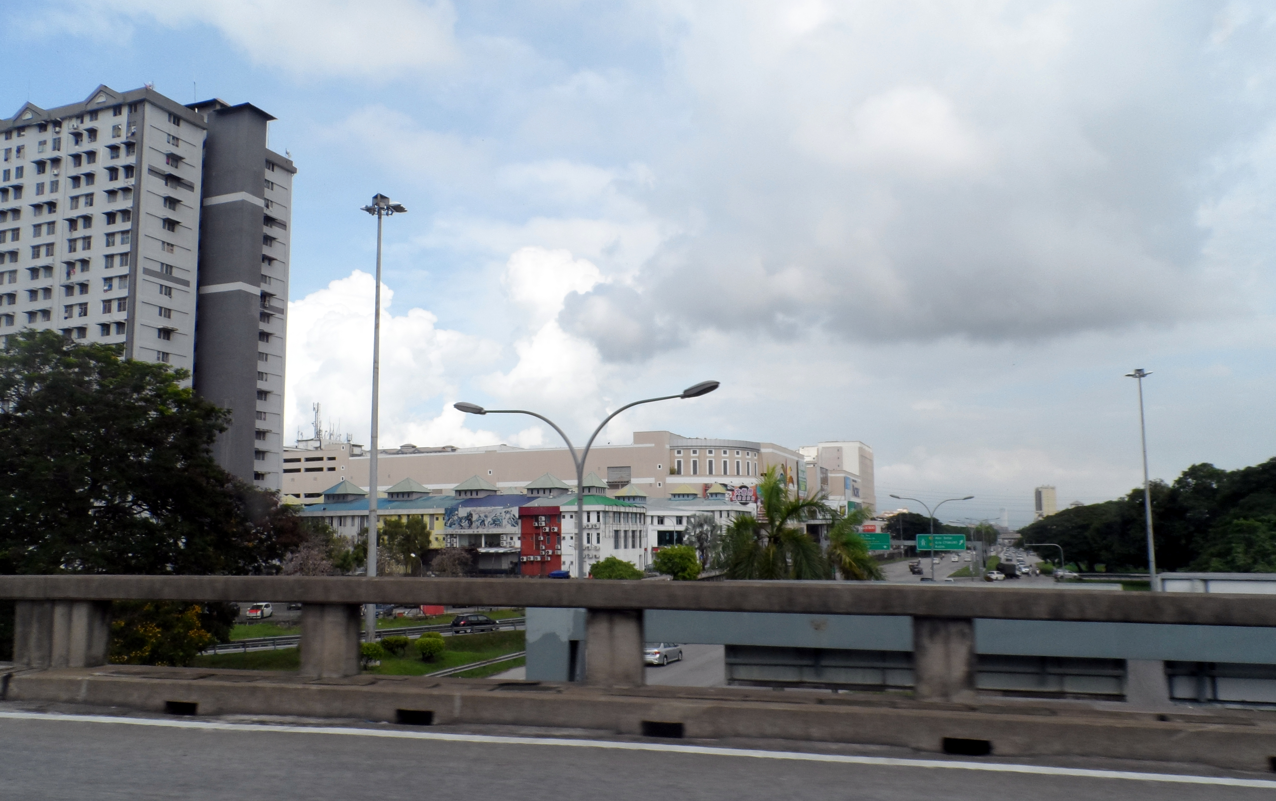 Jalan Baru in Perai, Penang